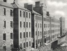 Old postcard of Paddington Workhouse Infirmary